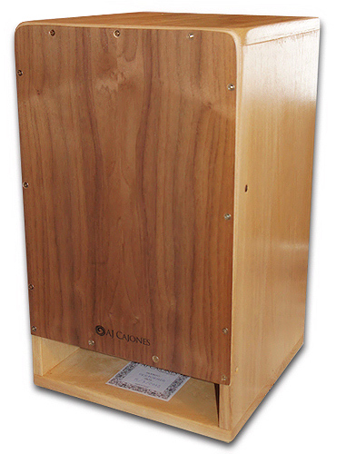 Front hole Cajón AJ Cajones Performer, with snare wire, made of Walnut wood. This Cajón is hand-made in Italy.